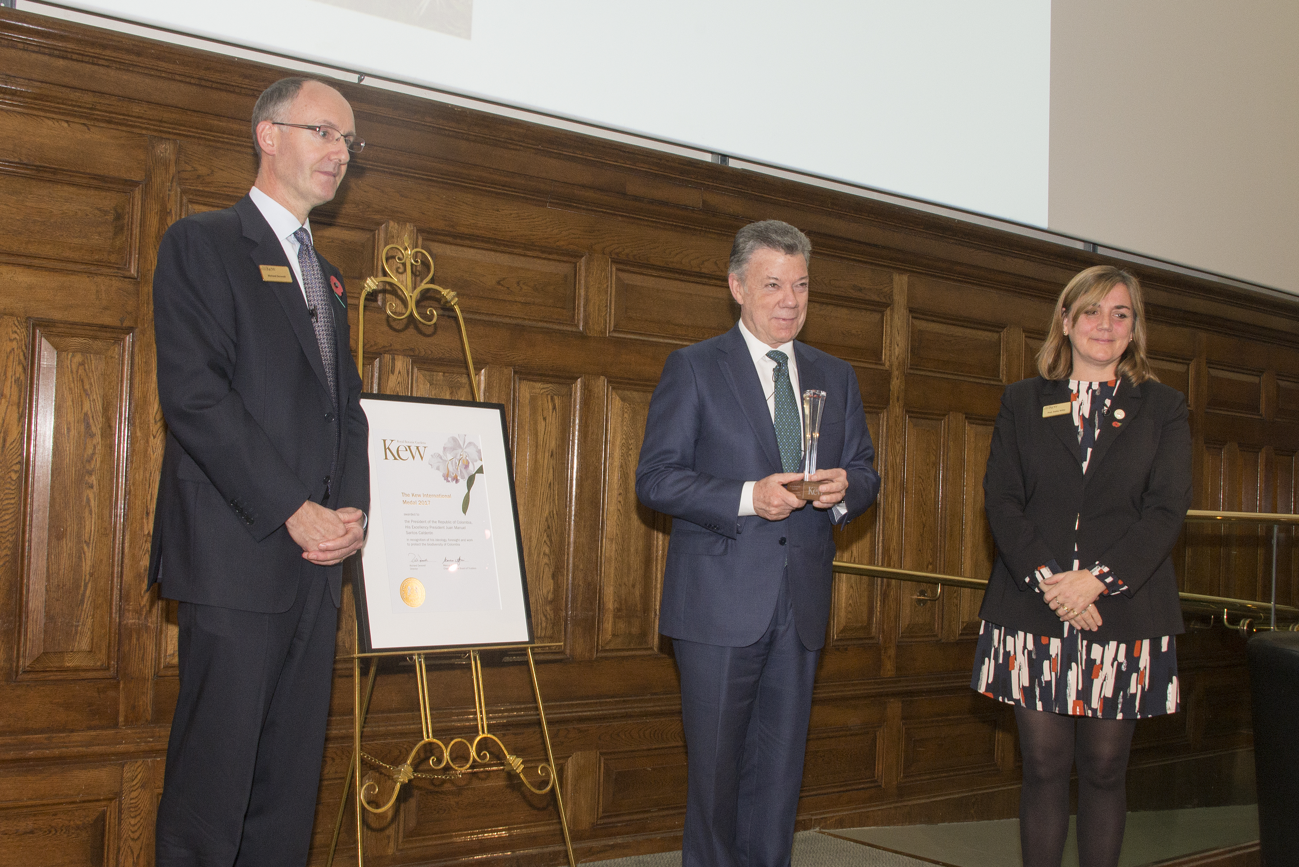 Richard Deverell, Director of Royal Botanic Gardens, Kew, President Santos of Colombia and Prof. Kathy Willis, Director of Science at Kew during the 2017 lecture in London.